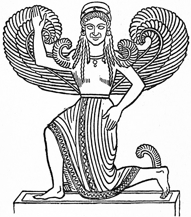 A figure found at Delos, and connected, though perhaps incorrectly, with a basis recording the execution of a statue by Archermus and Micciades, two sculptors who stood, in the middle of the 6th century, at the head of a sculptural school at Chios. The representation is of a running or flying figure, having six wings, like the seraphim in the vision of Isaiah, and clad in long drapery. It may be a statue of Nike or Victory, who is said to have been represented in winged form by Archermus.